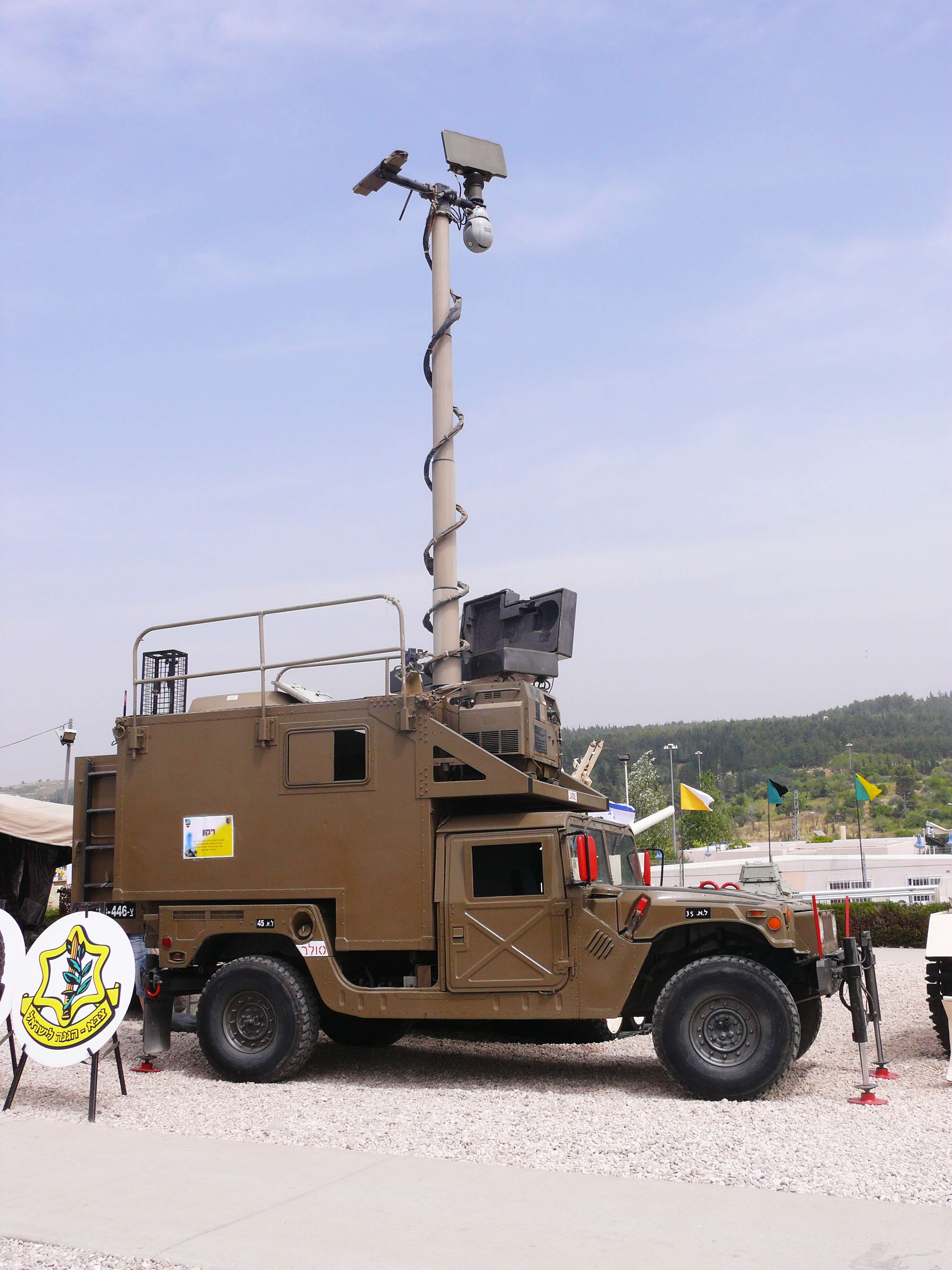 "Racoon" Recon and observation vehicle of IDF's Field Intelligence Corps רקון - רכב תצפית של חיל האיסוף הקרבי